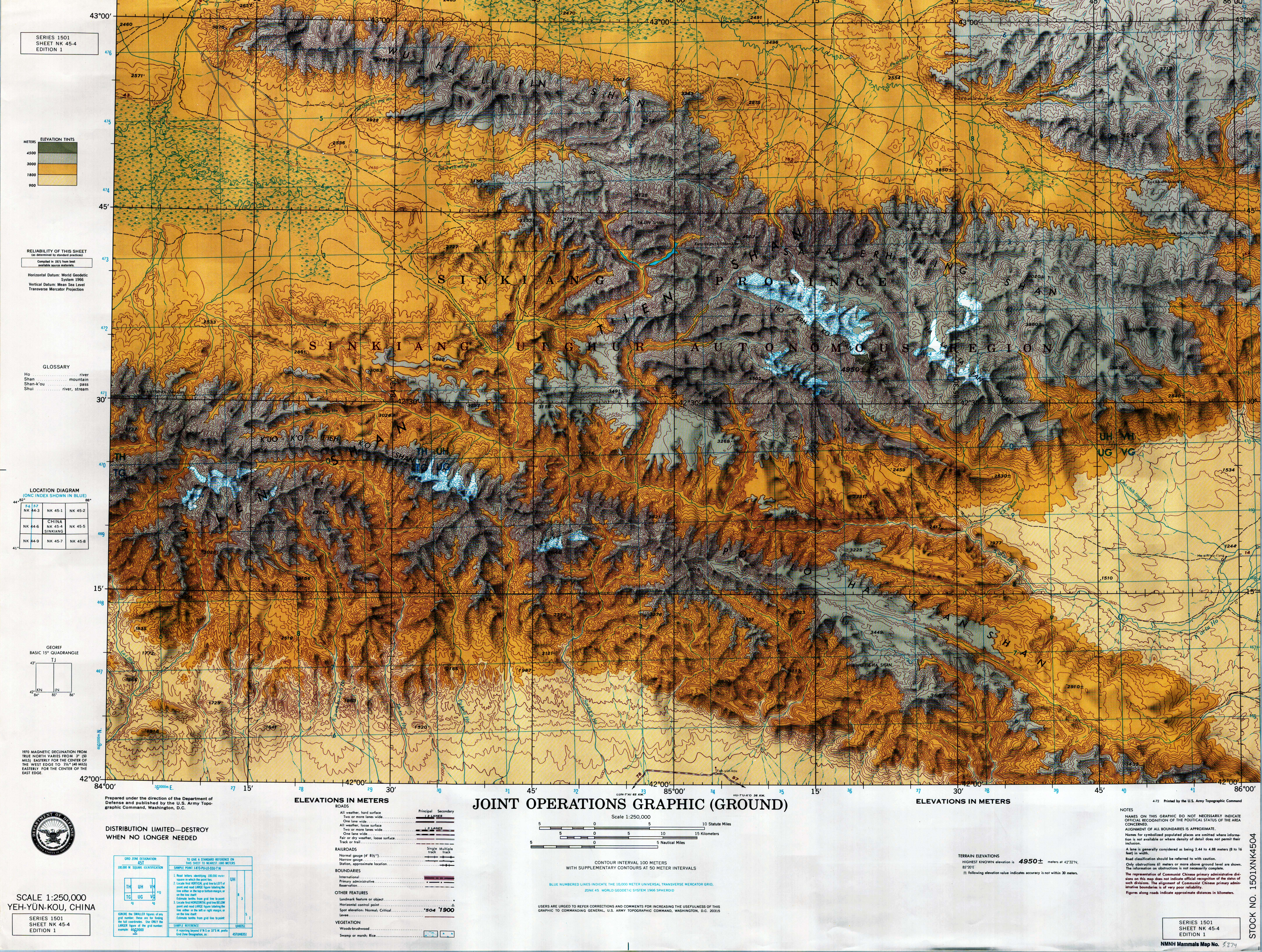 NK-45-04 Yeh-Yun-Kou China